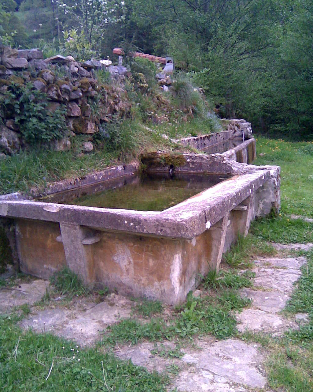 La Joya: public whashing place in Carrascal de San Miguel (Luena, Cantabria)